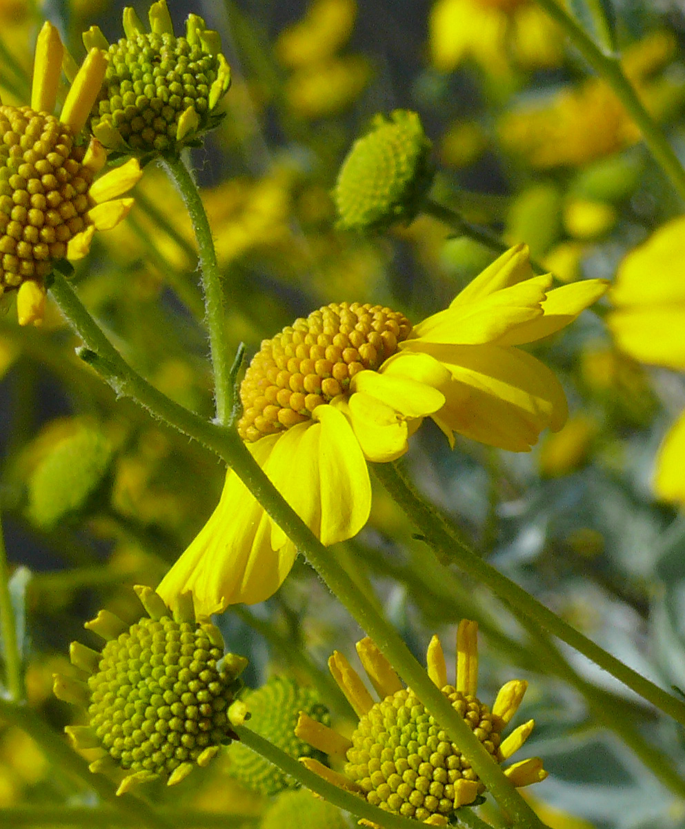 Encelia farinosa — Brittlebush; flowers. In Sabino Canyon nature preserve, in the Sonoran Desert southeast of Tucson, Arizona. Taken 3/23/2008.